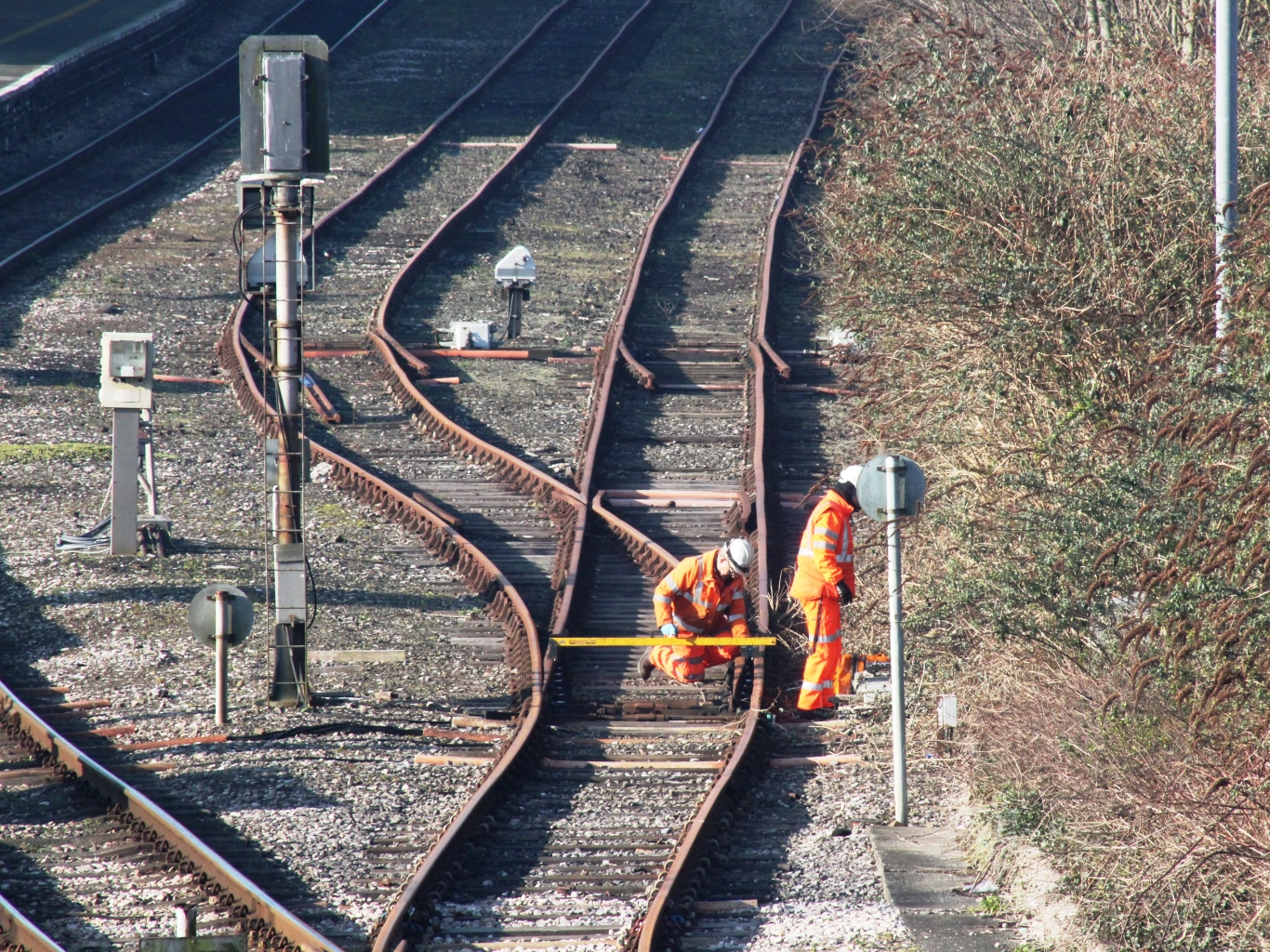 Two Network Rail engineers check the gauge of the track in the Park Sidings at Plymouth station.